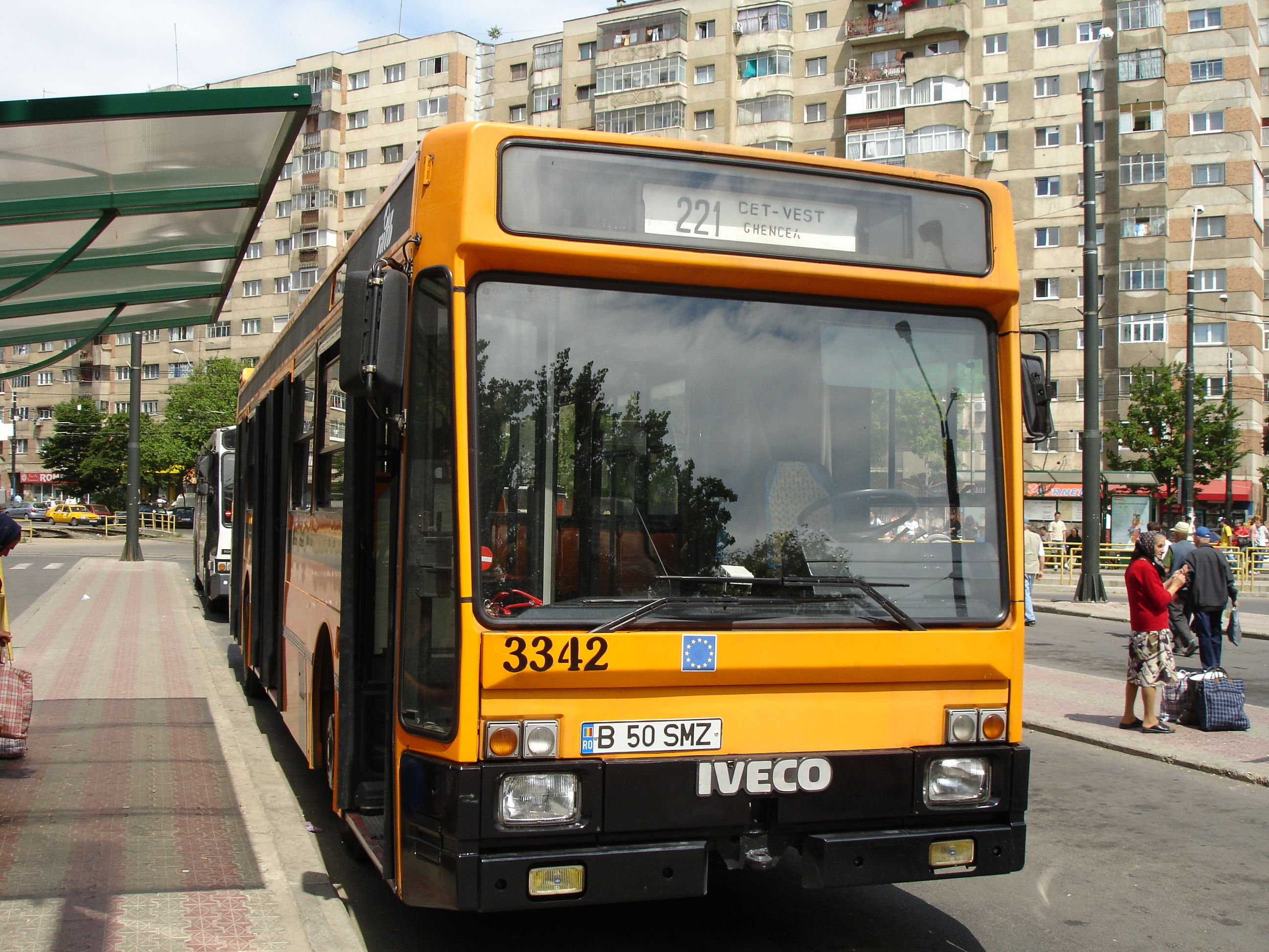 Public bus in Bucharest, Romania (IVECO TurboCity 480.12.21 type). Year built 1990. RATB București company.